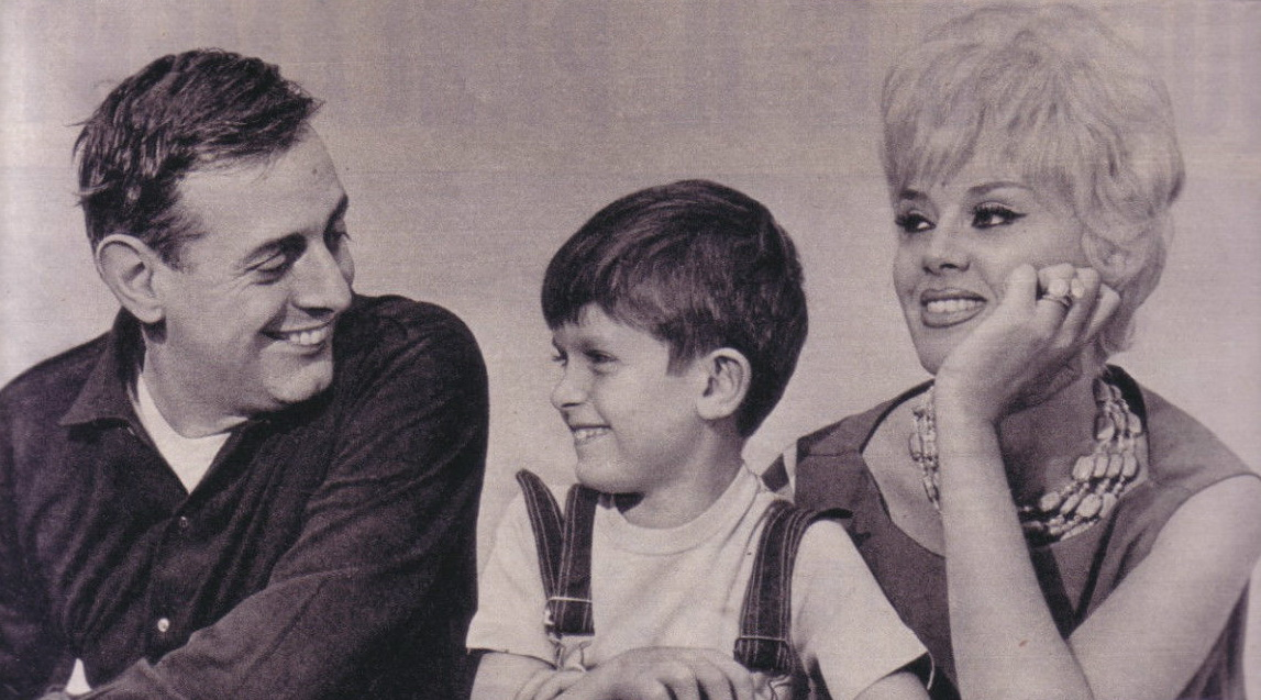 Italian actors Dario Fo and Franca Rame with their son Jacopo